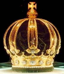 Imperial Crown of Brazil